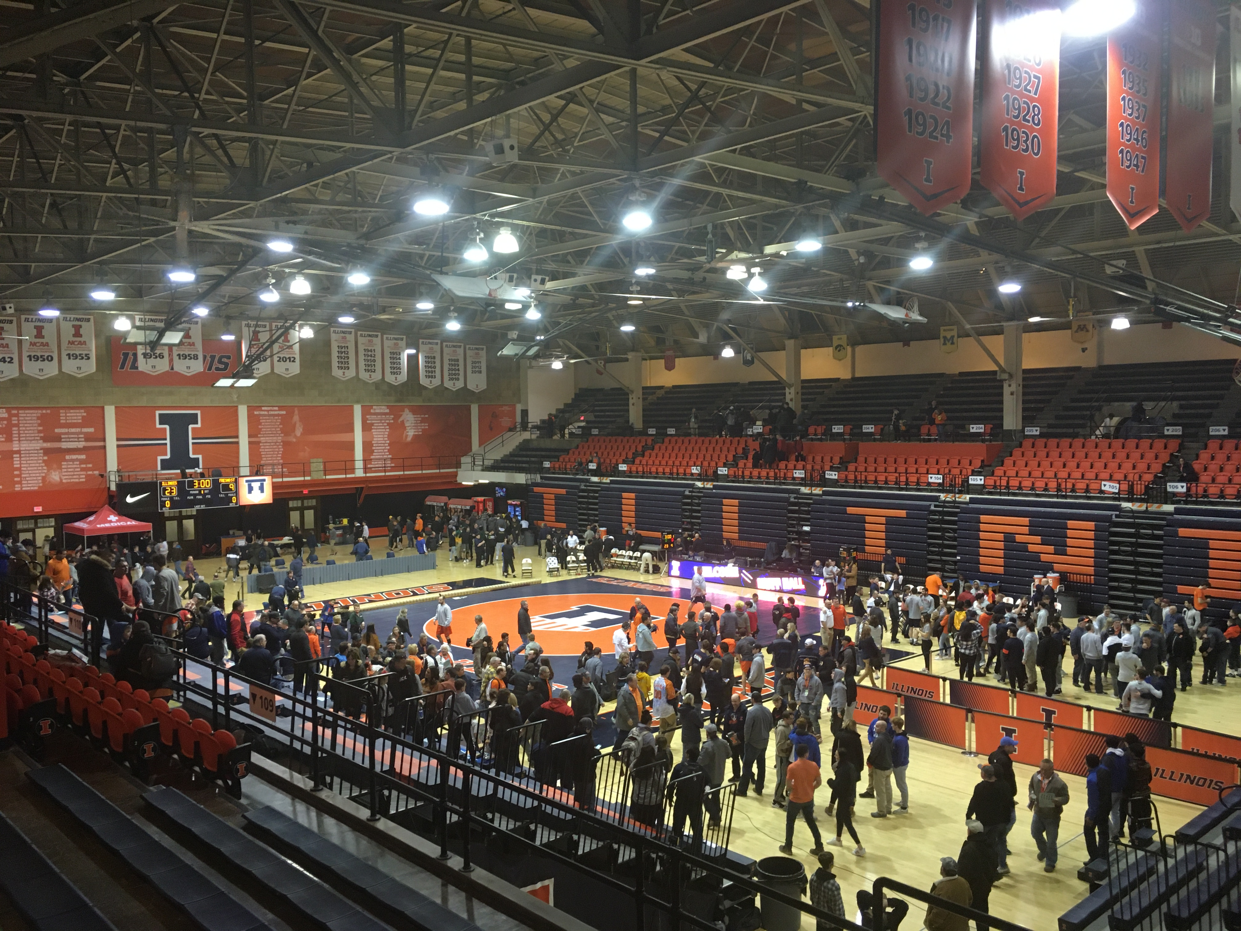 University of Illinois's Huff Hall following the last home wrestling match of the 2019-2020 season